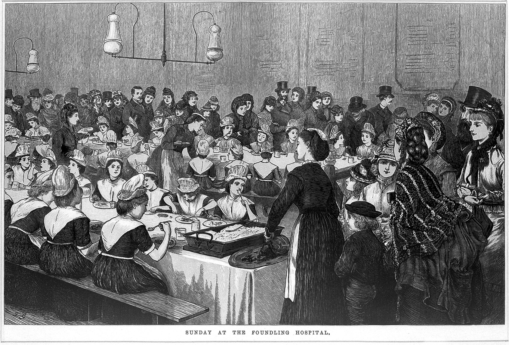 Fashionable London comes to observe Sunday lunch at the Foundling Hospital. Wood engraving by J. Swain, 1872, after H.T. Green. Iconographic Collections Keywords: foundling hospital; Institutions; Foundling Hospital (London); Henry Towneley Green; Joseph Swain